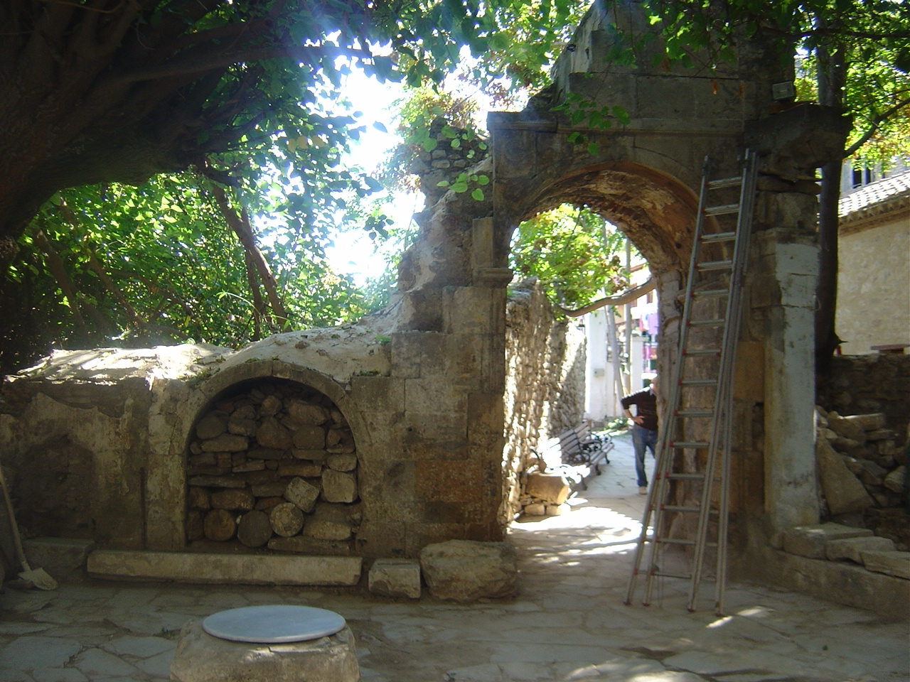 Logothetis mansion in Plaka, Athens, Greece